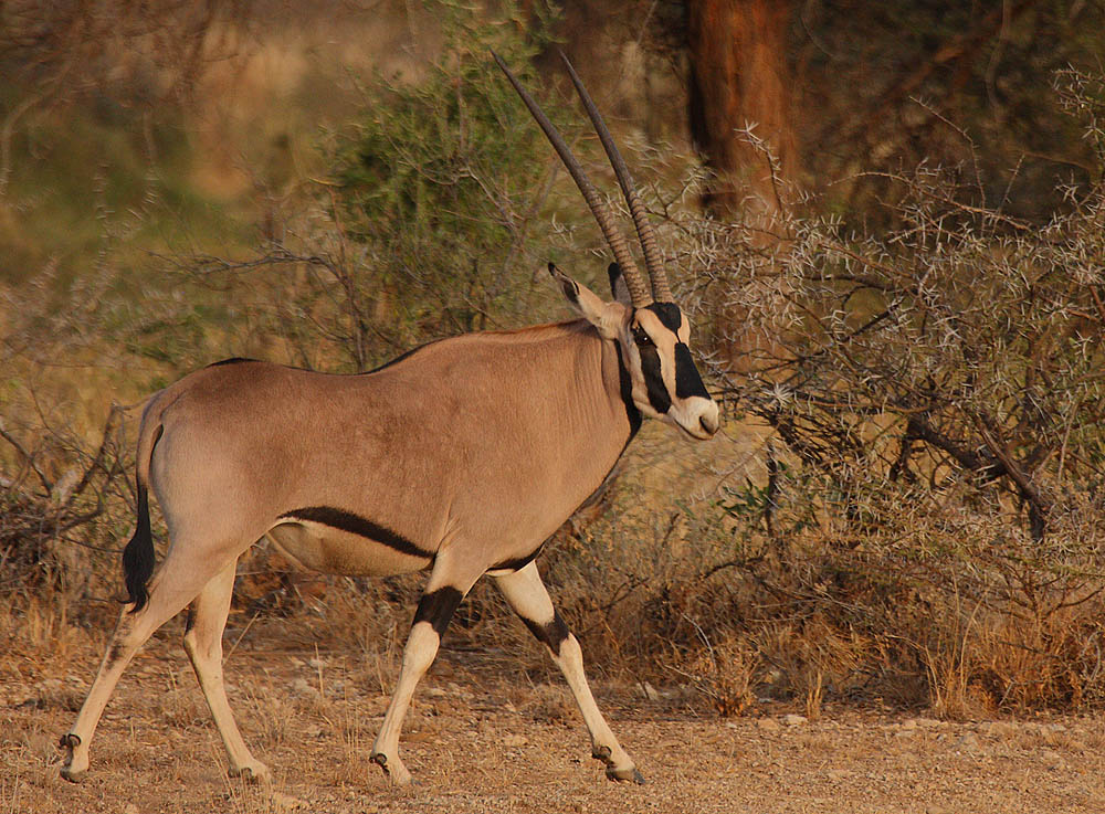 A large and impressive-looking antelope closely related to the Gemsbok of southern Africa. This is the northern subspecies (Oryx beisa beisa) which extends through Nortehrn Kenya into the horn of Africa whilst the other subspecies (Oryx beisa callotis) -the Fringe-eared Oryx is restricted to south-east Kenya and eastern Tanzania.